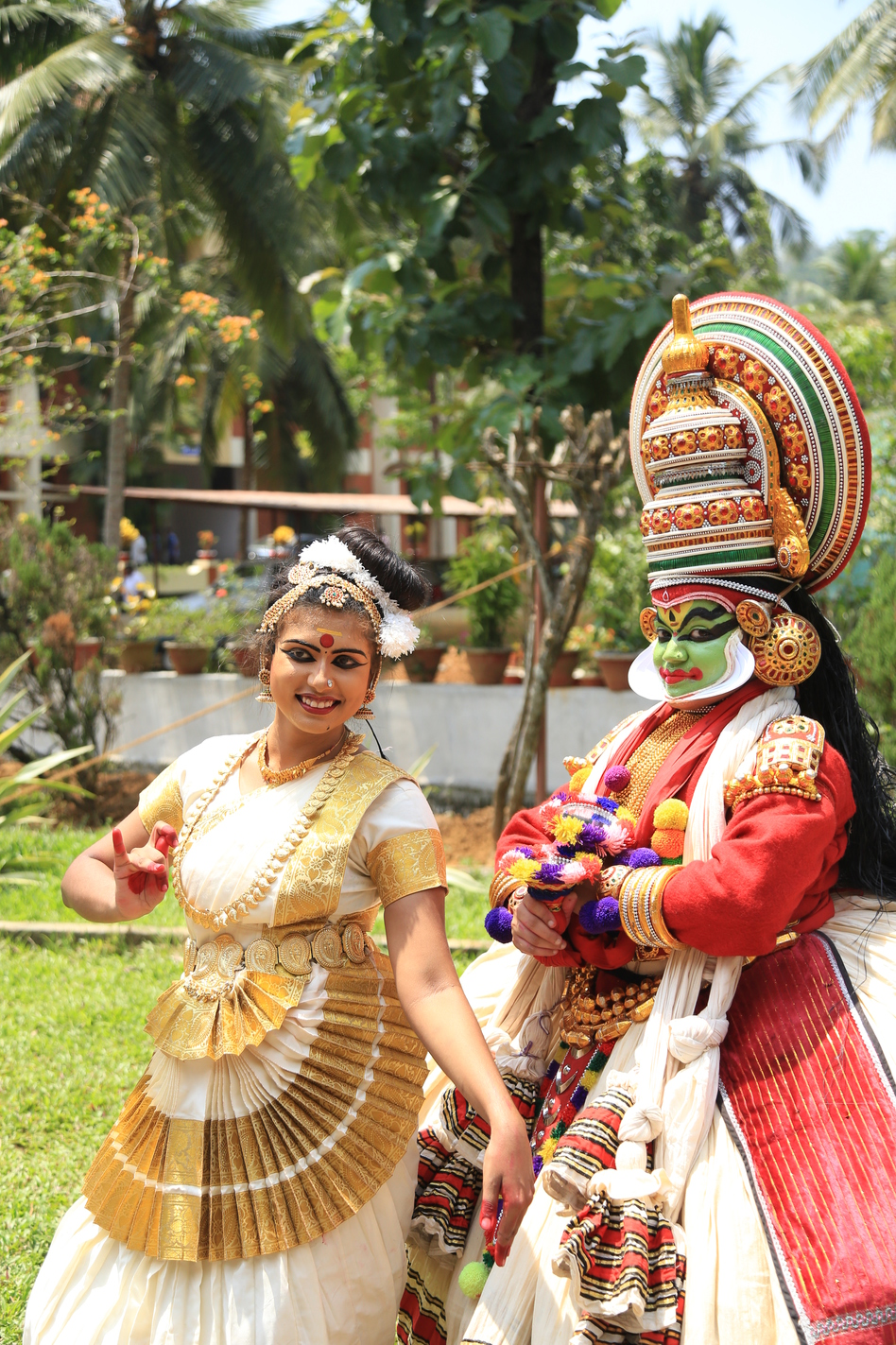 bharatanatyam and kathakali performer soon after the event sargam SJCET